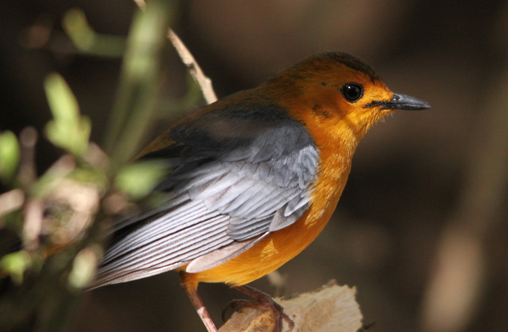 Red-capped Robin-chat, Cossypha natalensis, Mkhuze Game Reserve, KwaZulu Natal, South Africa